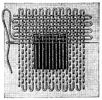 Illustration for section "Mending" in Encyclopedia of Needlework. Fig. 41. Linen darning. Drawing in the woof threads.